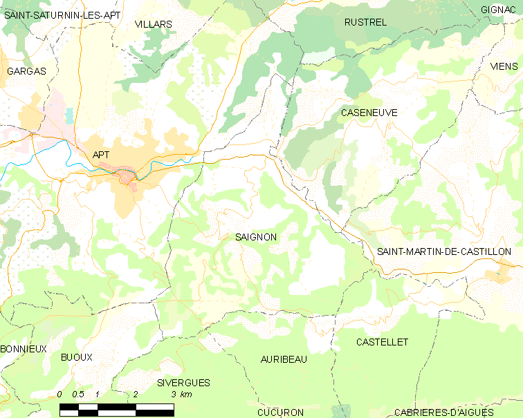 Map of French municipality Saignon